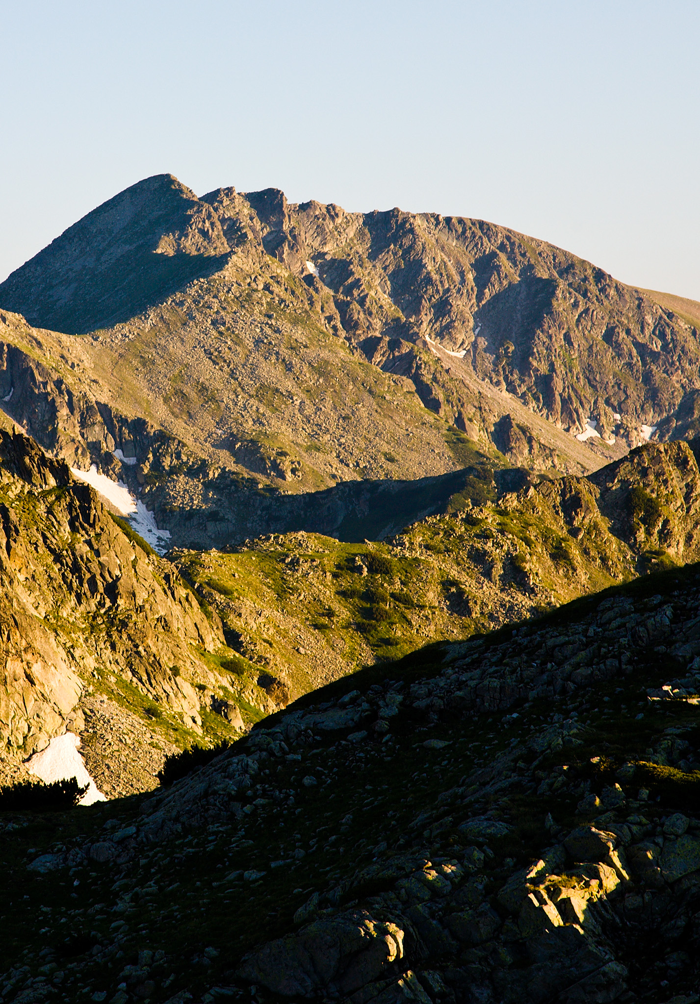 Kuklite Summit in northern Pirin mountain, Bulgaria. Picture taken from the Belemeto nearby Tevno ezero.